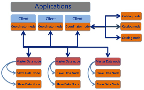 SequoiaDB infrastructure Graph.